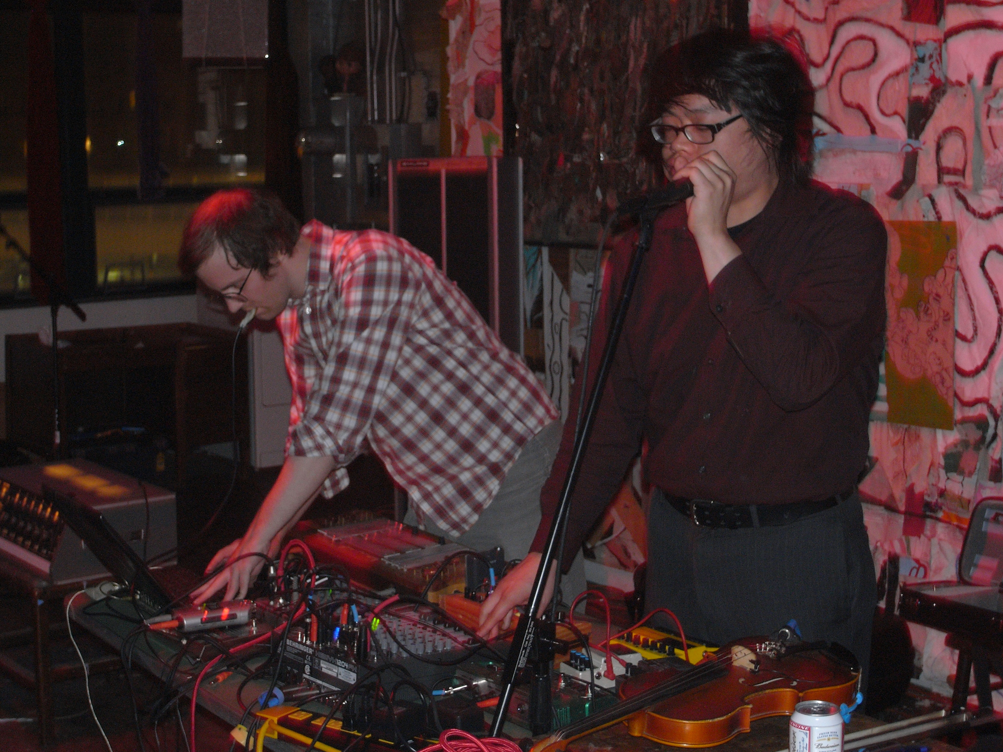 John Wiese (left) and C. Spencer Yeh (right)